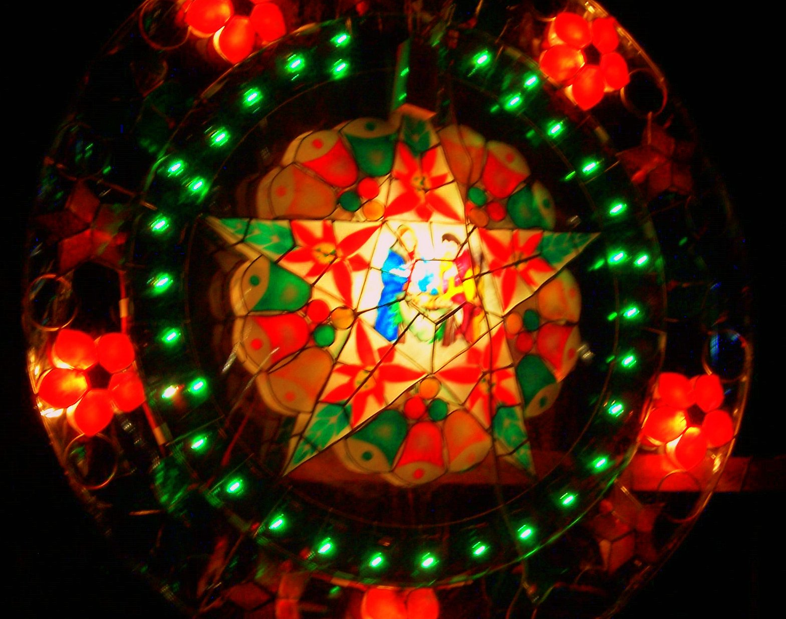 Christmas spirit in the Philippines comes early. As soon as the "ber" months start (September to December), Christmas songs fill the air. And for a place known for gorgeous Christmas lanterns, Tarlac province comes alive as it offers commuters a view of varying shapes, sizes, and colors of parol or Christmas lanterns.